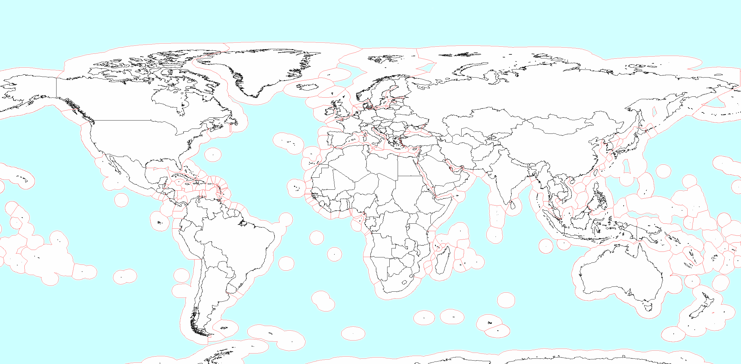 Exclusive Economic Zones of the World, noting areas that do not fall into an EEZ).